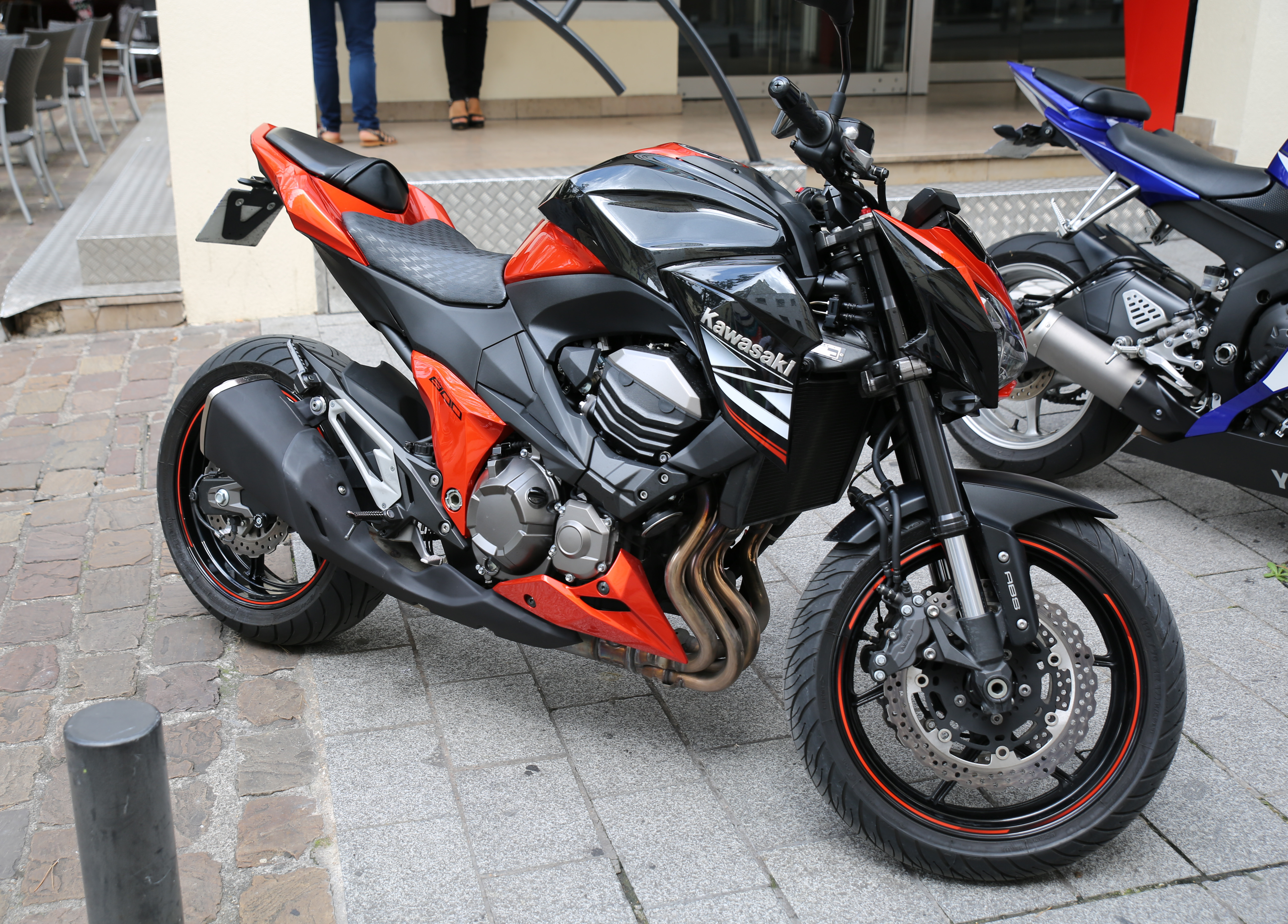 Kawasaki Z800 in Mérignac